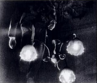 Ivor Novello still of the 1927 film The Lodger A Story of the London Fog, director: Alfred Hitchcock